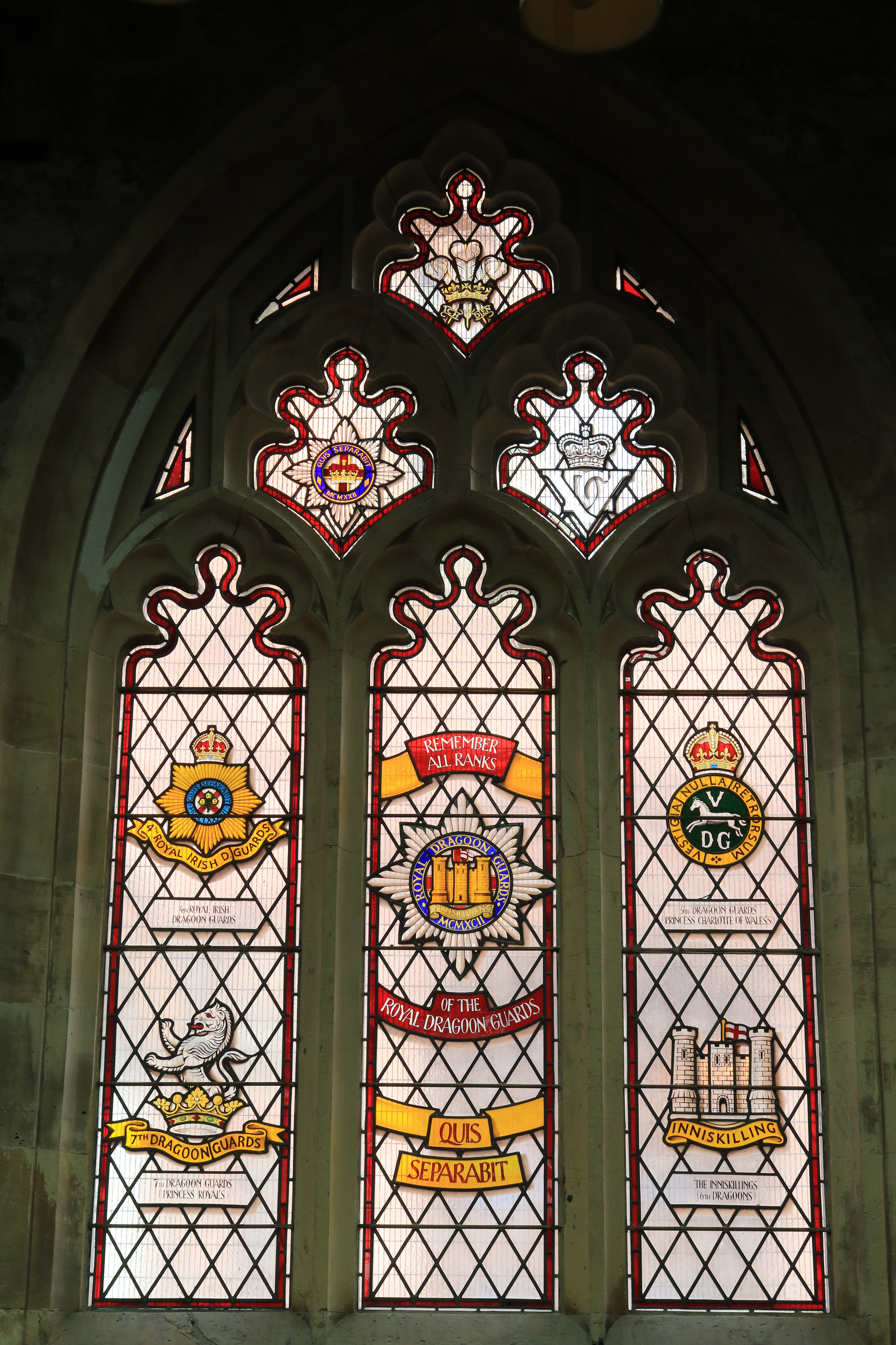 By Ann Sotheran, dated 2002